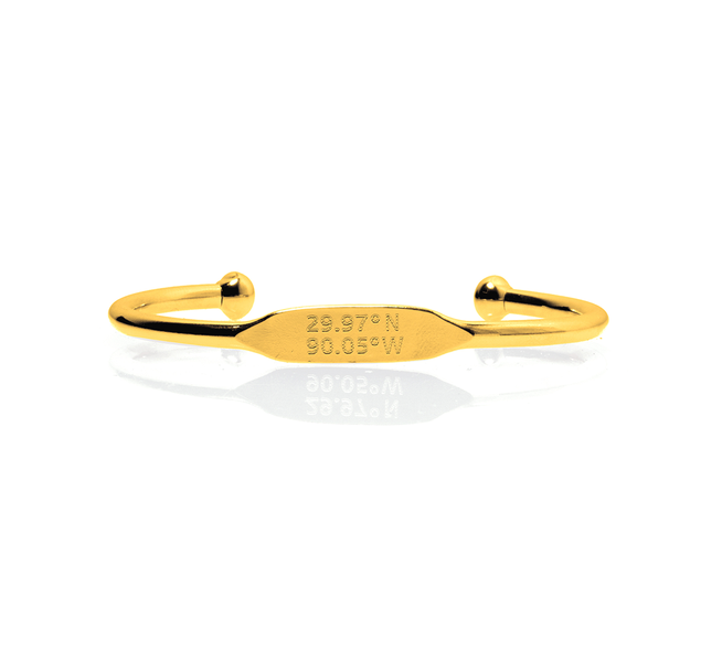 Porter Lyons' Signature ID bracelet from the 2014 Rebuild Collection